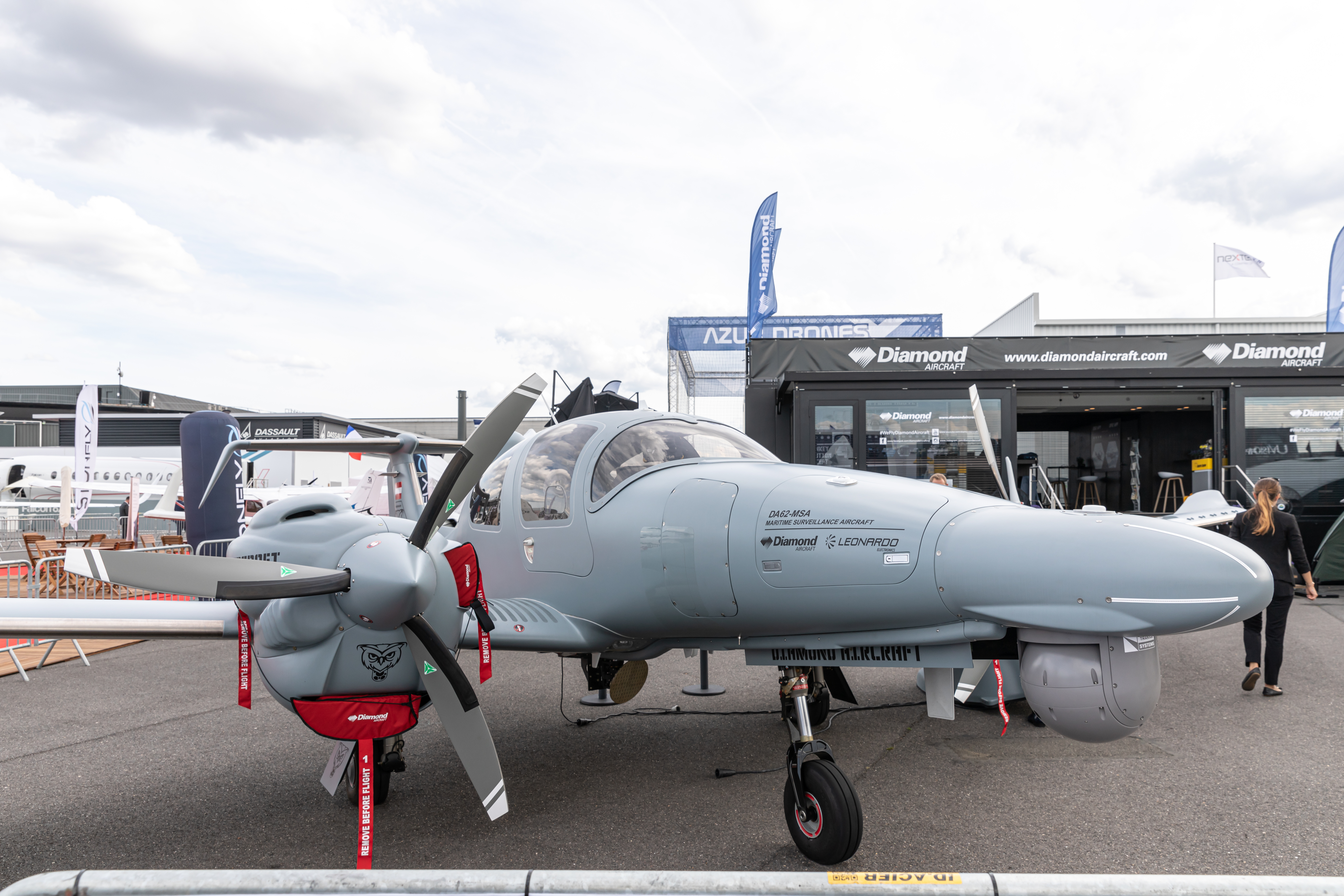 Diamond DA62-MSA at Paris Air Show 2019